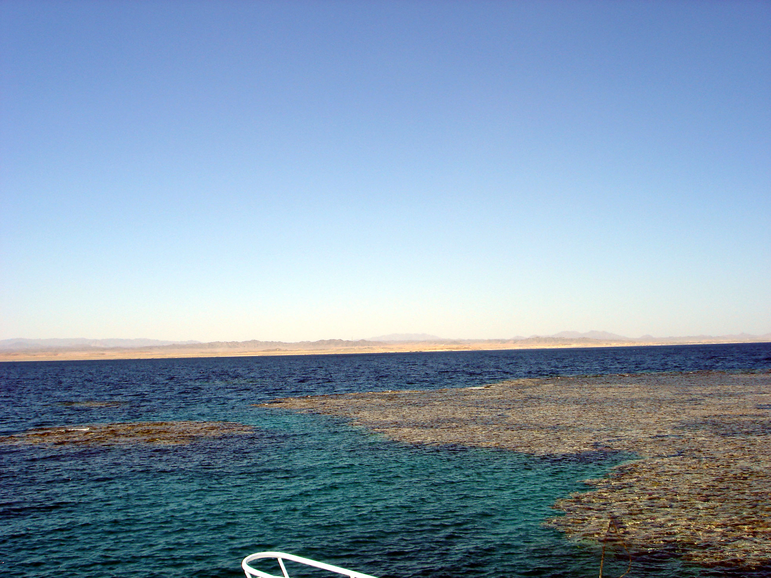 Surface view of Elphinstone Reef, Red Sea, Egypt